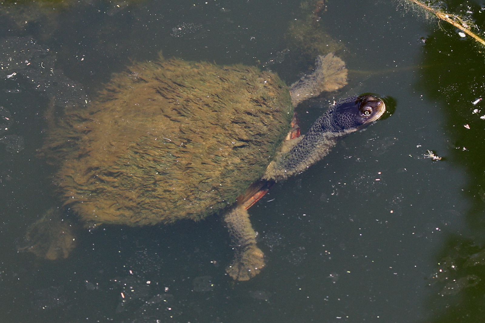 An Eastern Long-neck Turtle (Chelodina longicollis) covered in algae, Victoria, Australia.